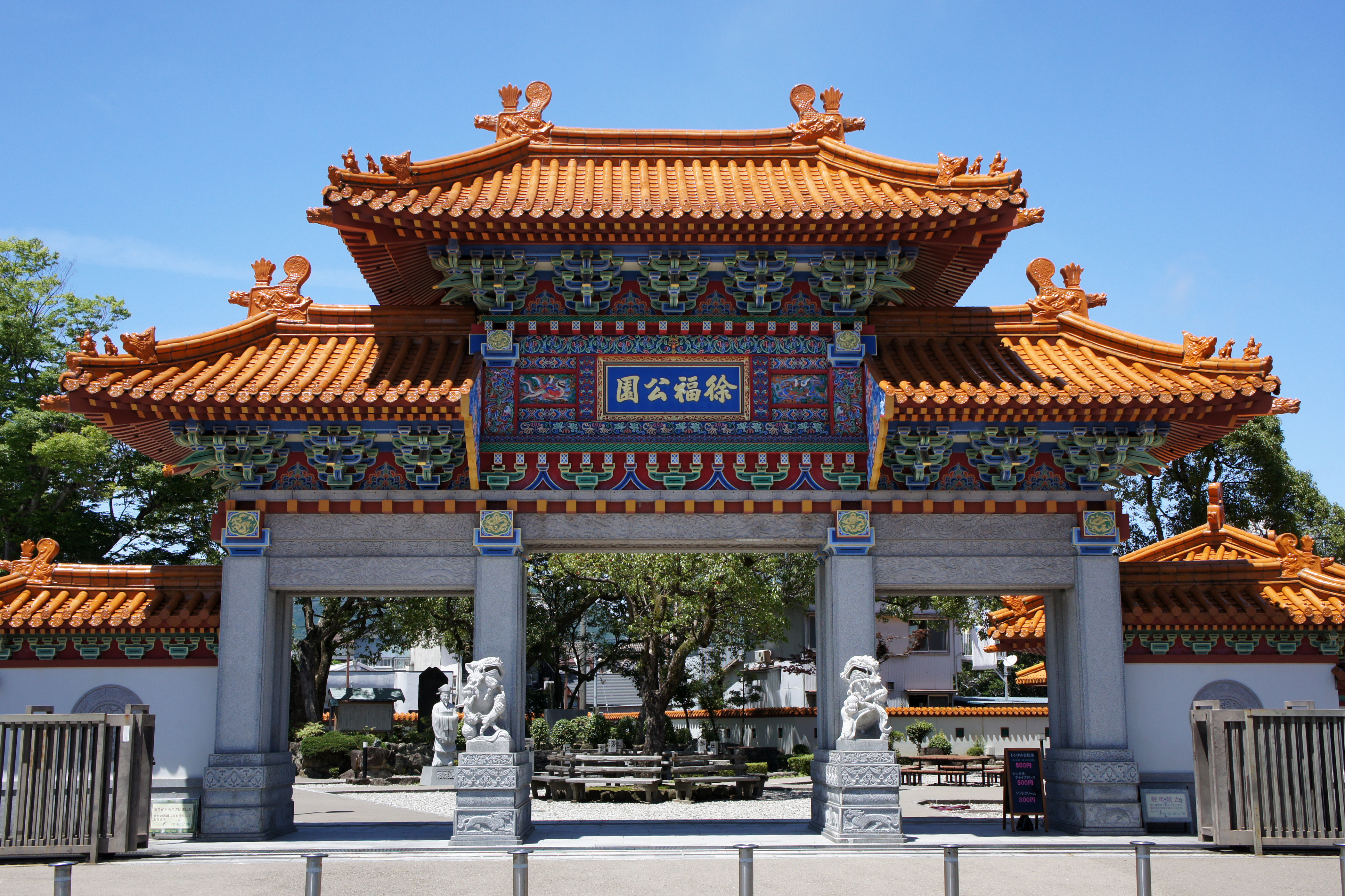 Jofuku-Park's Tower gate in Shingū, Wakayama prefecture, Japan